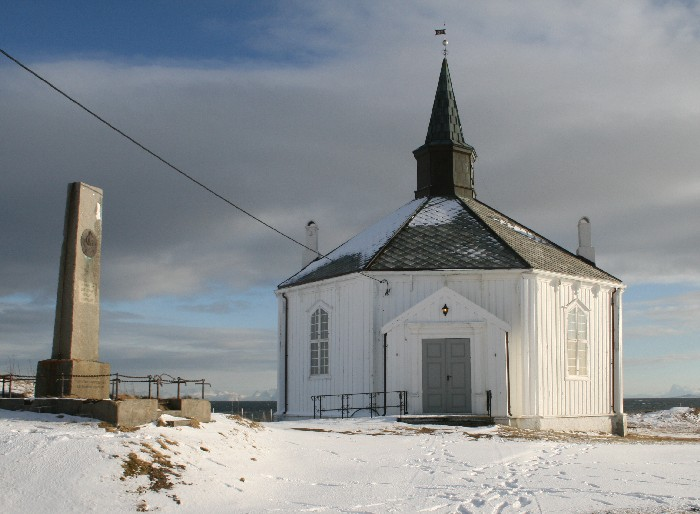 Dverberg church at Andøya in Nordland, Norway, with memorial for fishermen that lost their lives at sea